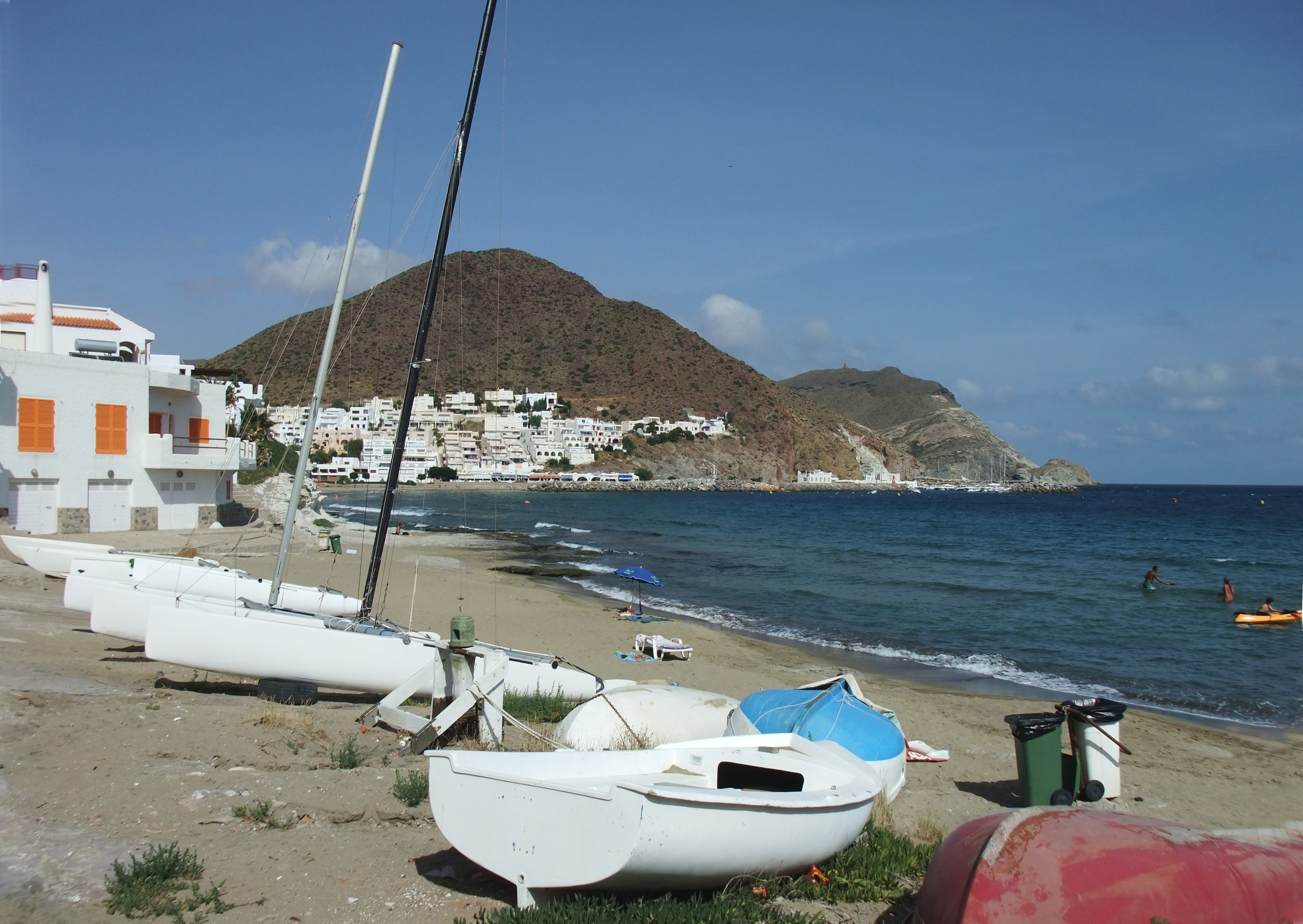 View at the bay of San José, Province of Almeria in Spain